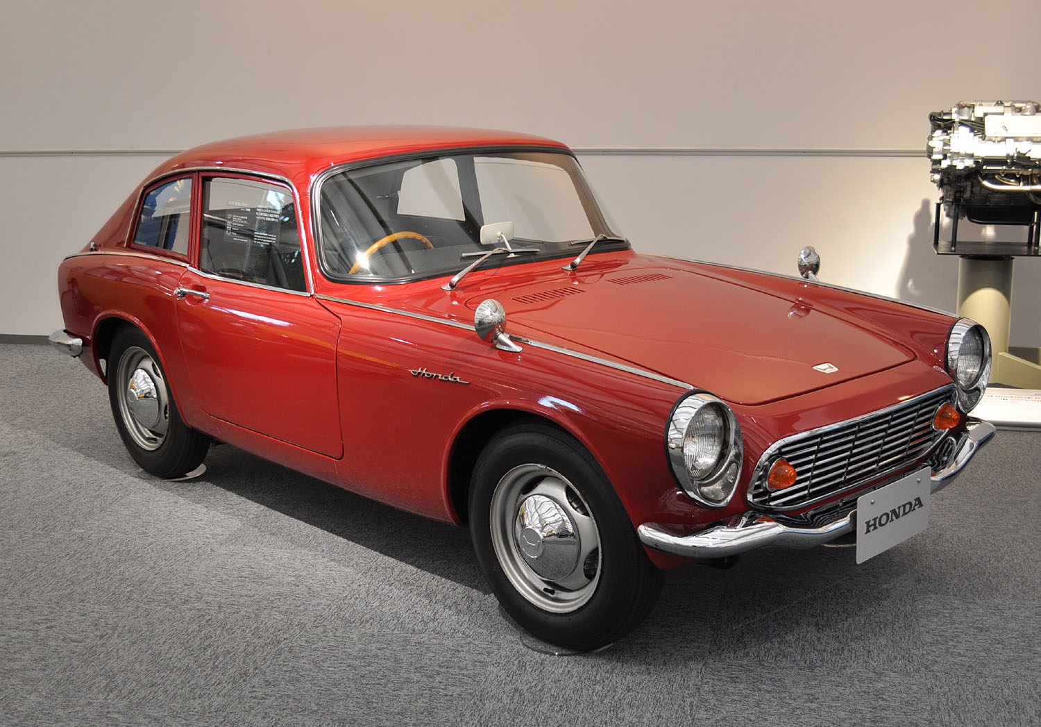 Honda S600 Coupe type (1965)